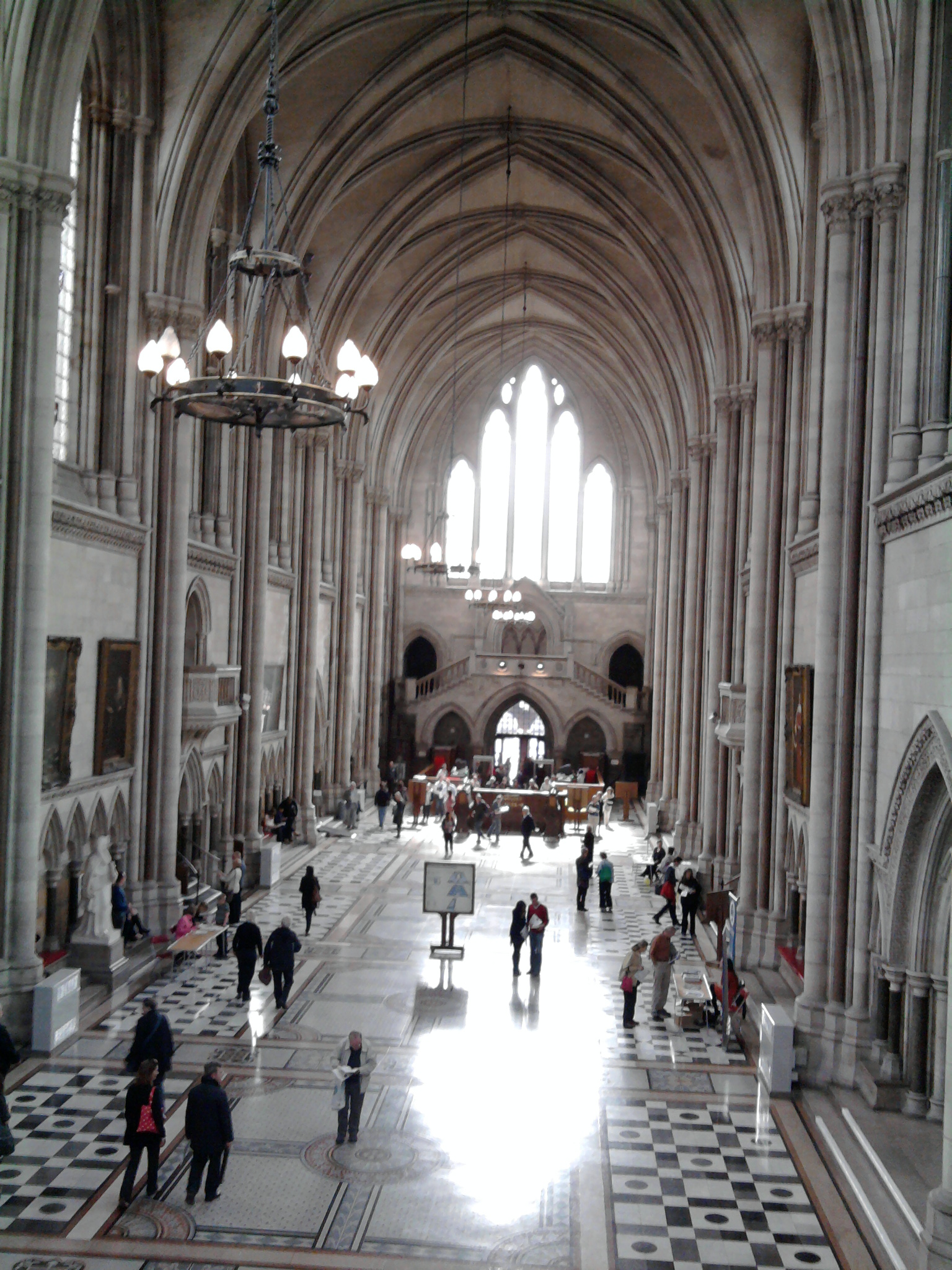 Royal Courts of Justice, London